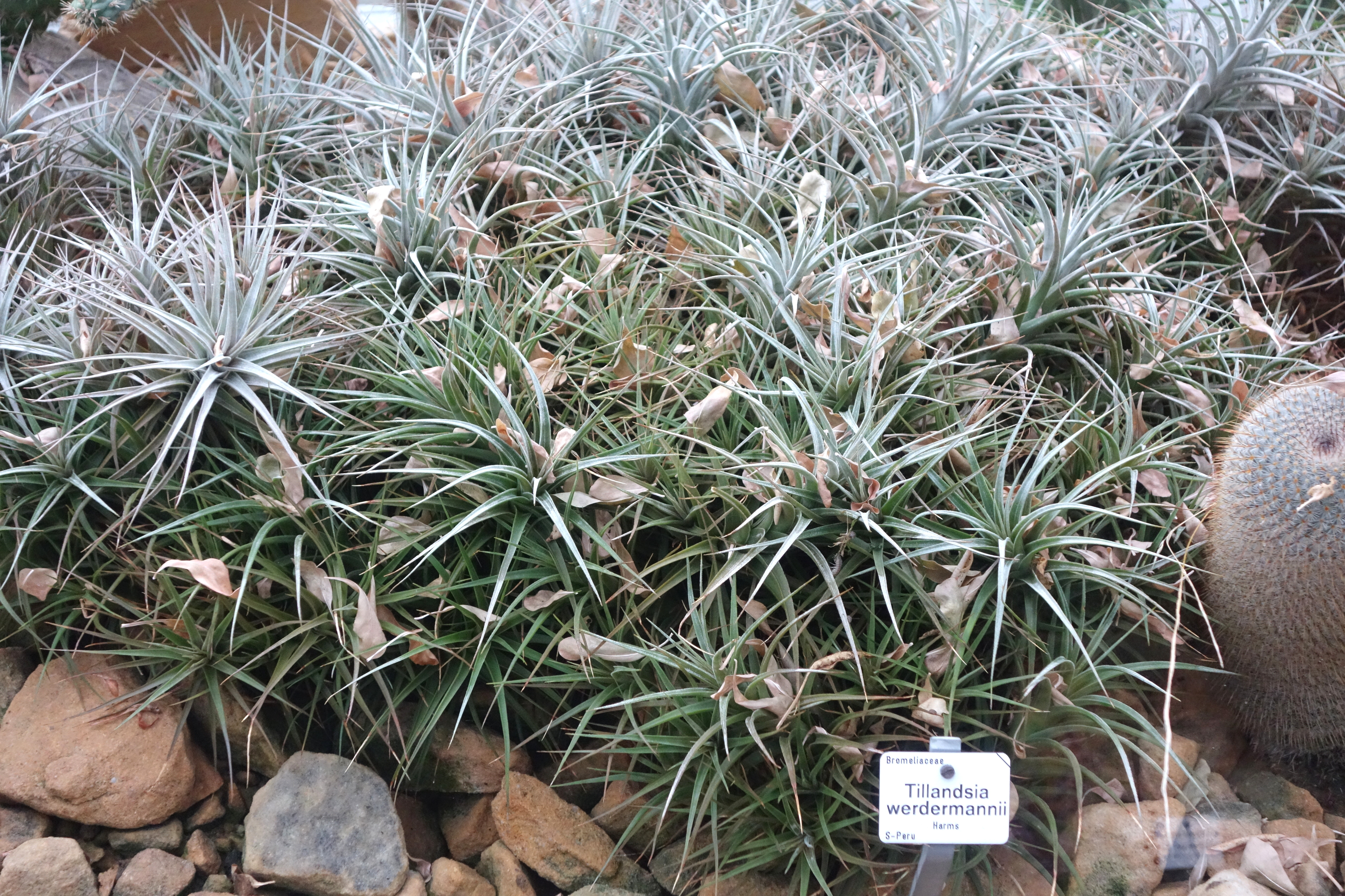 Botanical specimen in the Botanischer Garten, Dresden, Germany.